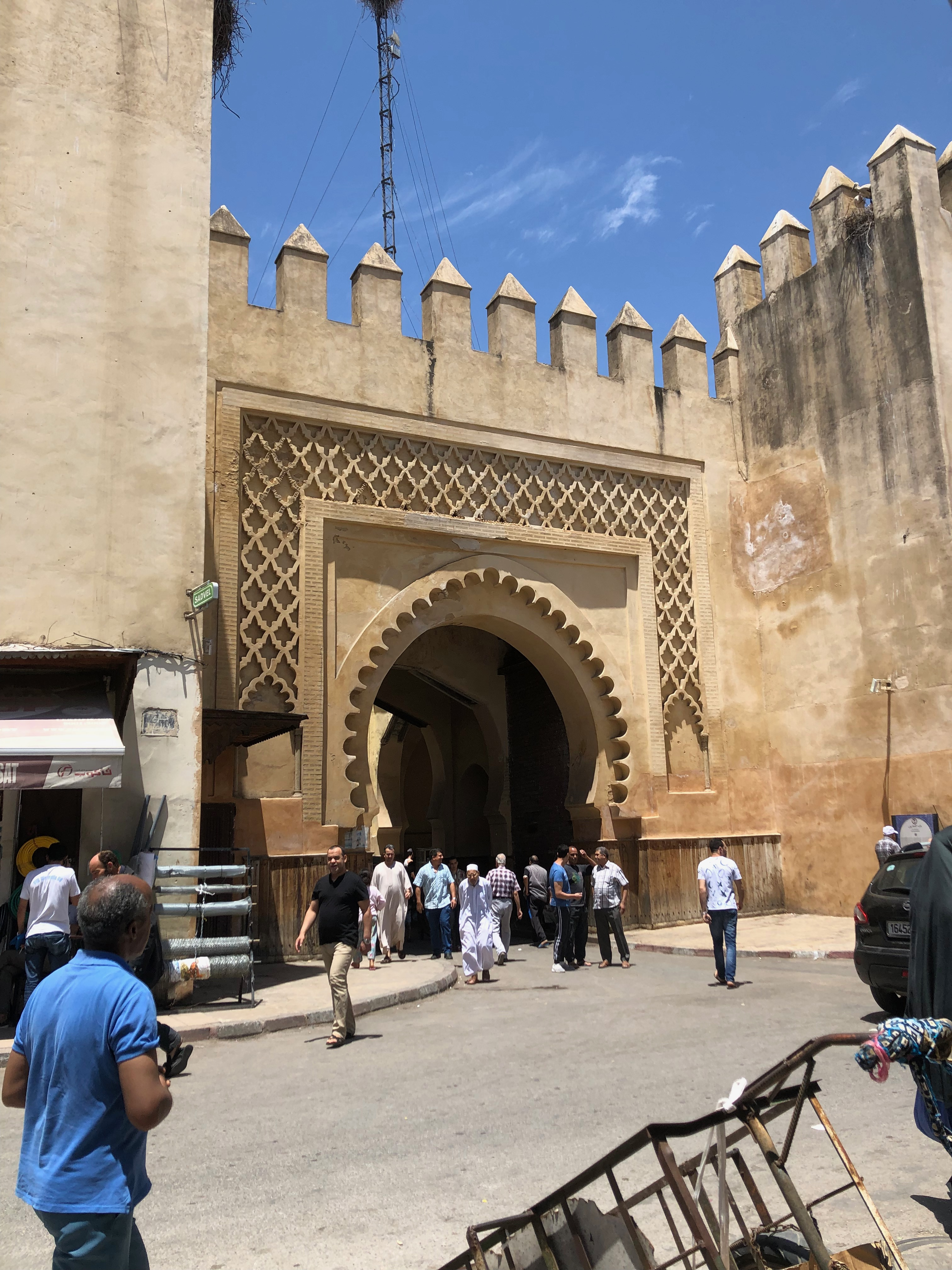 Bab Semmarine sanae:390038